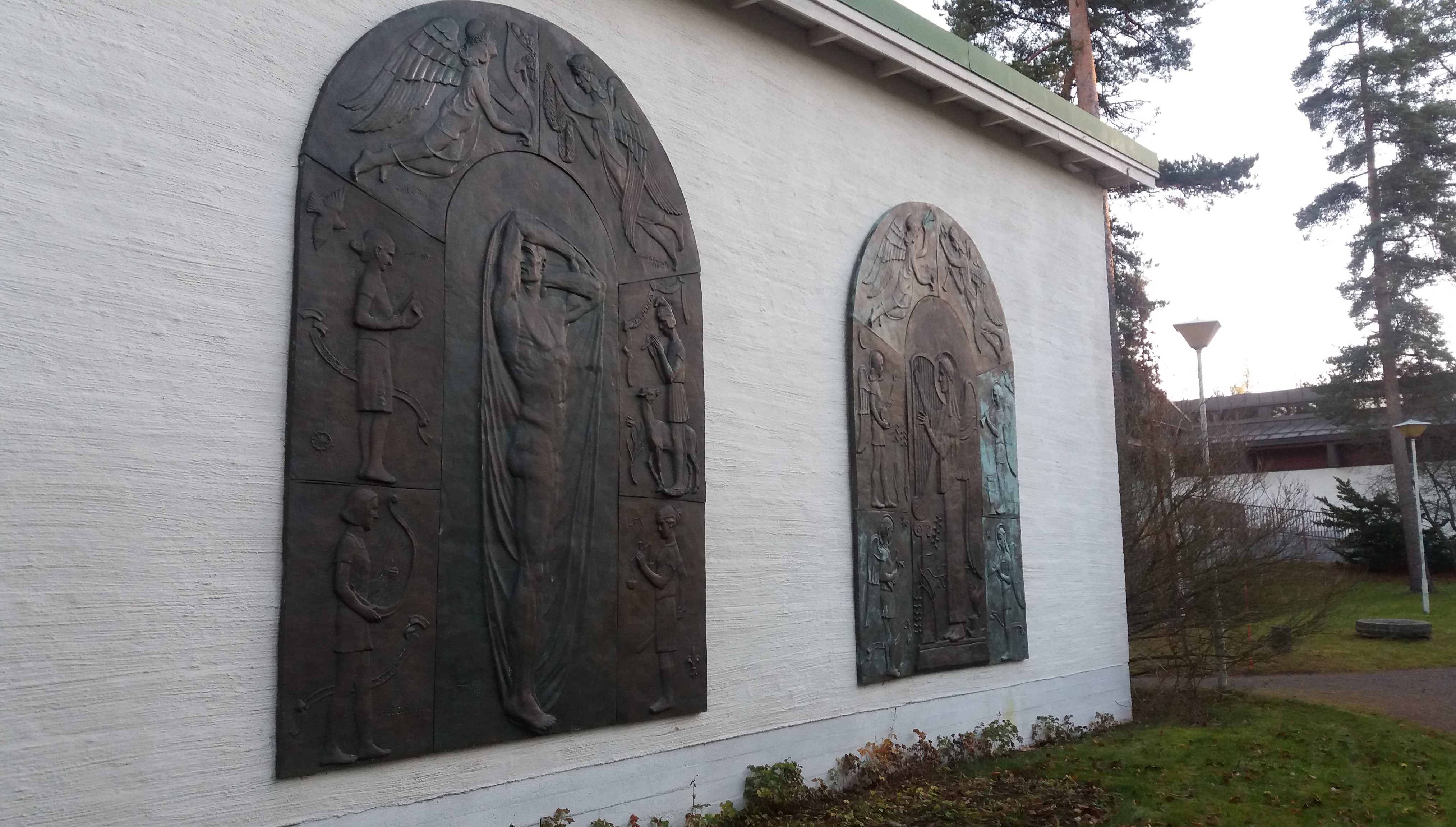 Bronze reliefs "Aika" (Time) and "Iäisyys" (Eternity) by the Finnish sculptor Emil Cedercreutz (1879-1949). The artworks were made in the 1920s for the Juselius mausoleum in Pori, but removed in the 1930s. The reliefs are now on display at the Emil Cedercreutz Museum in Harjavalta, Finland.